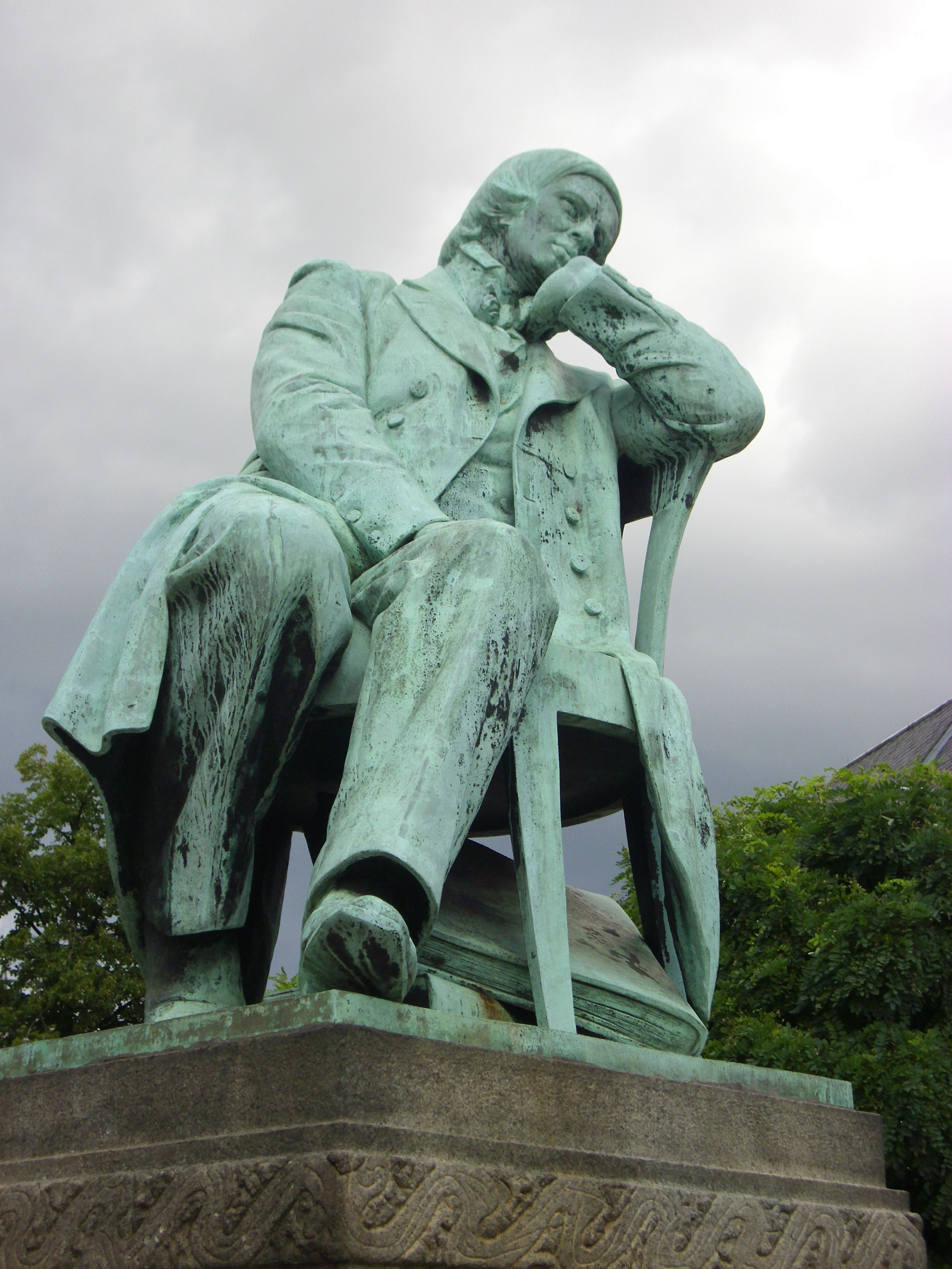 The Robert Schumann Monument (1901) by Johannes Hartmann (1869 – 1952) honors the composer and pianist of the Romantic Robert Schumann (1810 – 1856).